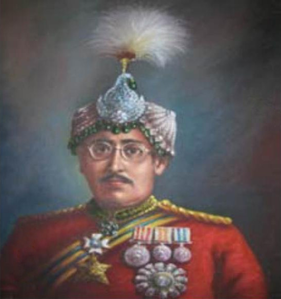 Probably Colonel "Bahadur" Gambhir Singh Rayamajhi, leader of suppressing Nepali forces in Indian Mutiny 1857AD; anyone recognizing this picture may confirm the person, add proper info and remove this ambiguity phrase.